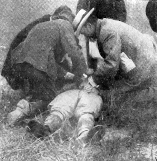 "The Tragic Flight at Fort Myer" — photograph of the aftermath of the crash on September 17, 1908 Caption: Doctors with Lieutenant Selfridge